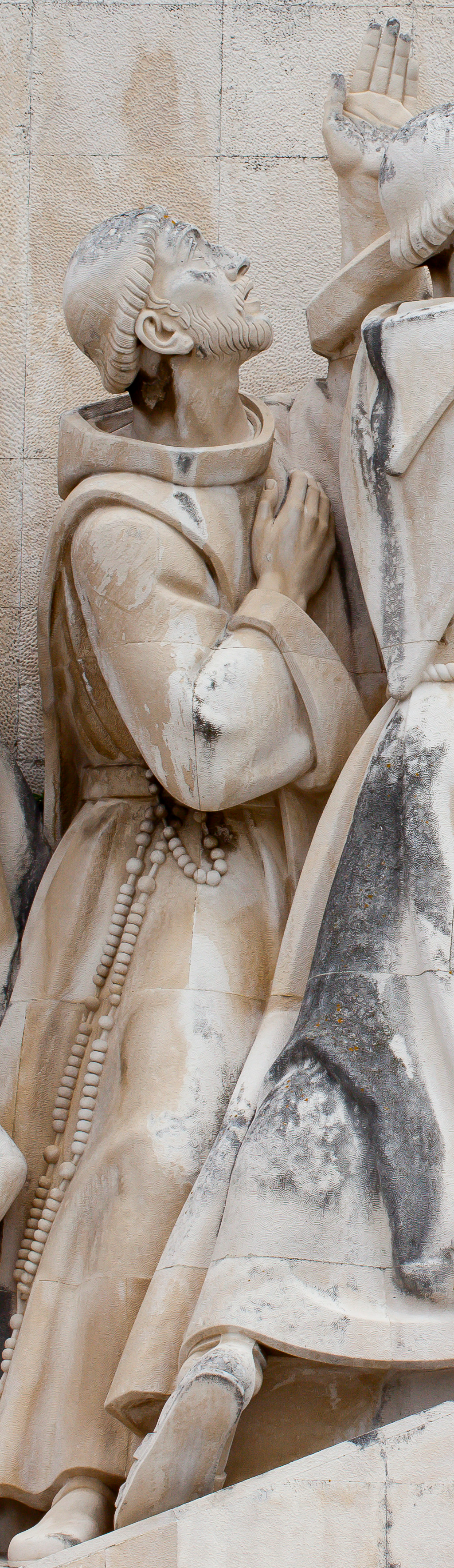 Effigy of Friar Gonçalo de Carvalho, 15th-century Catholic priest from Portugal, in the Padrão dos Descobrimentos (Monument to the Discoveries), in Lisbon, Portugal.